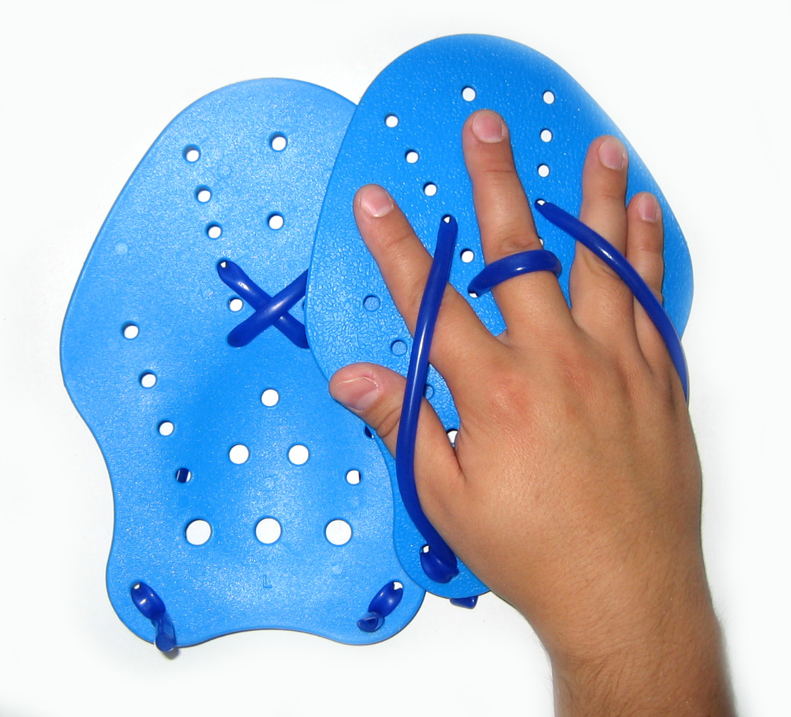 Hand paddle for swimming. It is worn on the swimmer's hands during swim practices to enhance muscle build-up or speed.